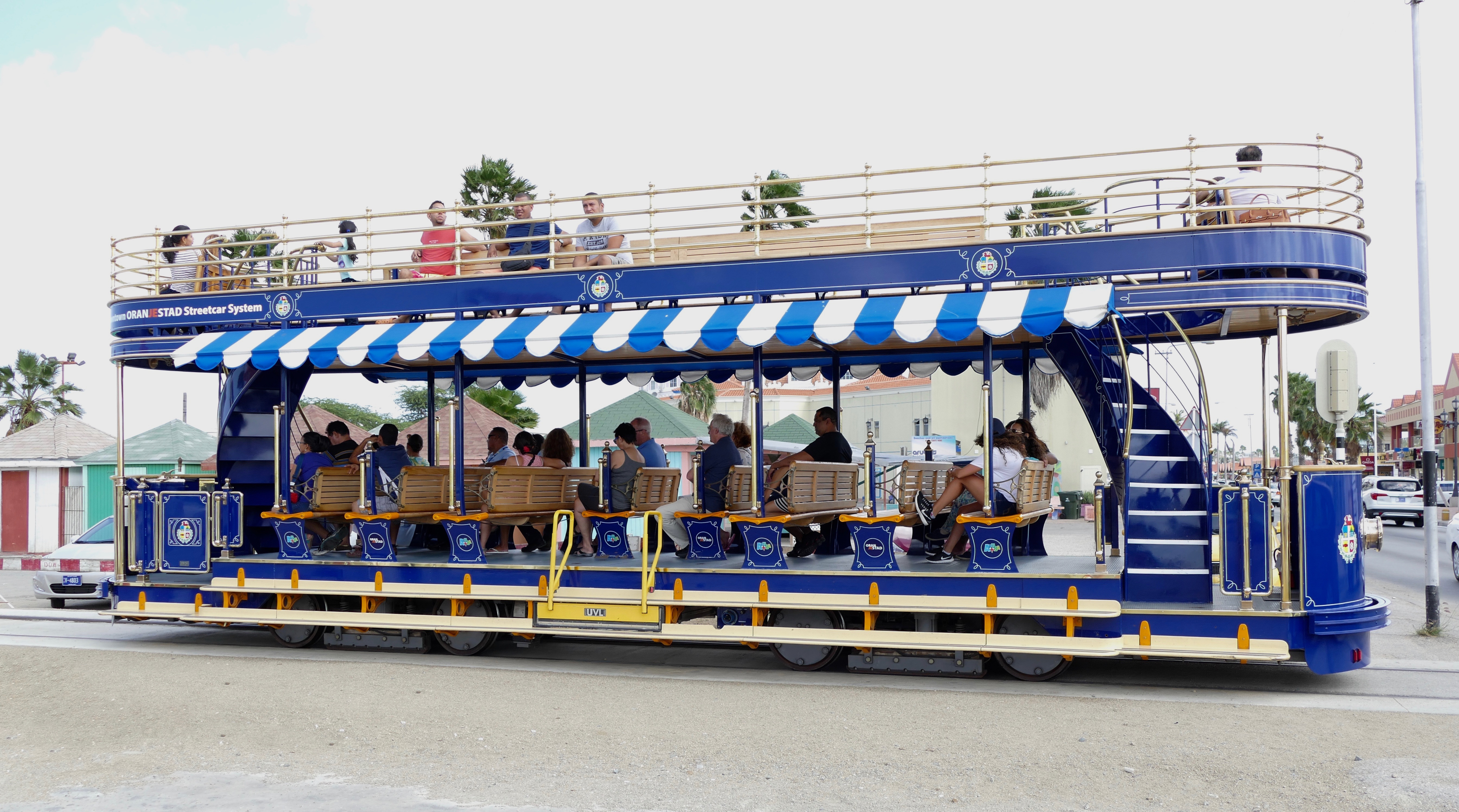 One of the Oranjestad Streetcar System's double-deck trams